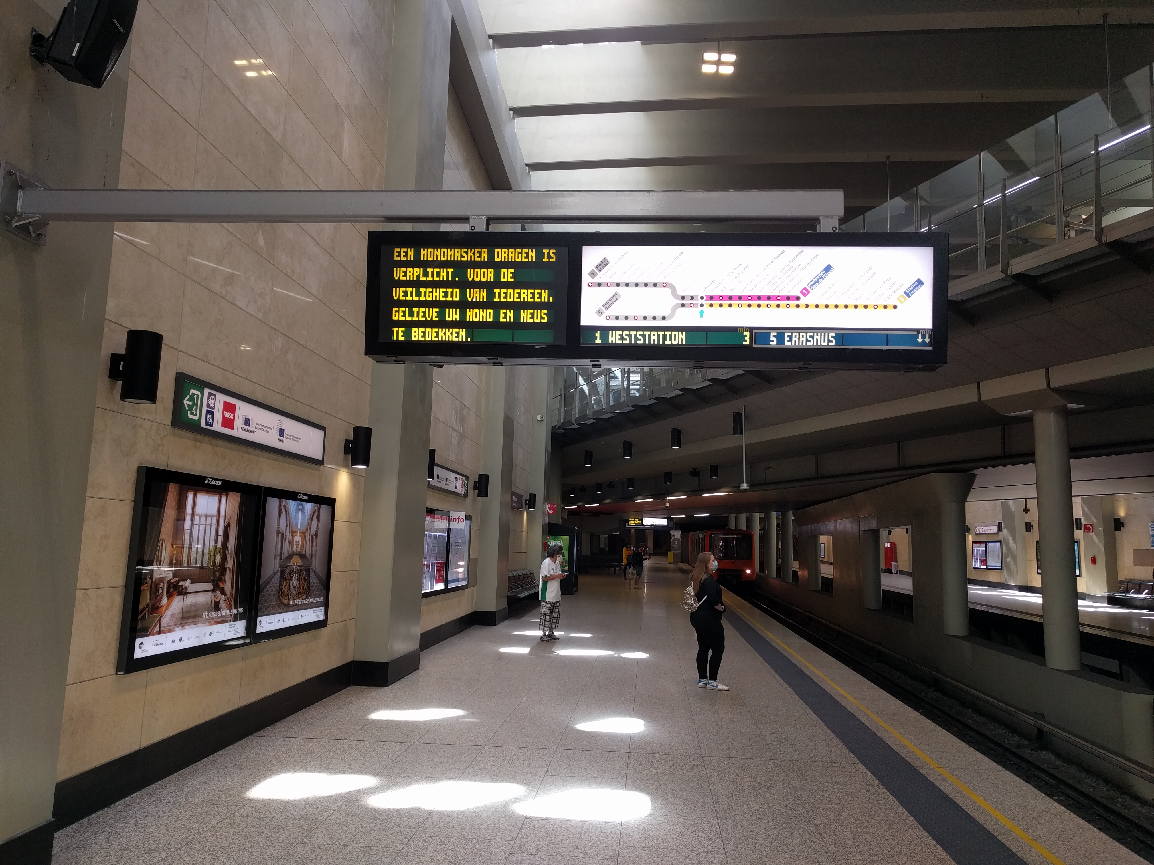 Schuman station in Brussels, during the COVID-19 pandemic, with a board telling the security measures.